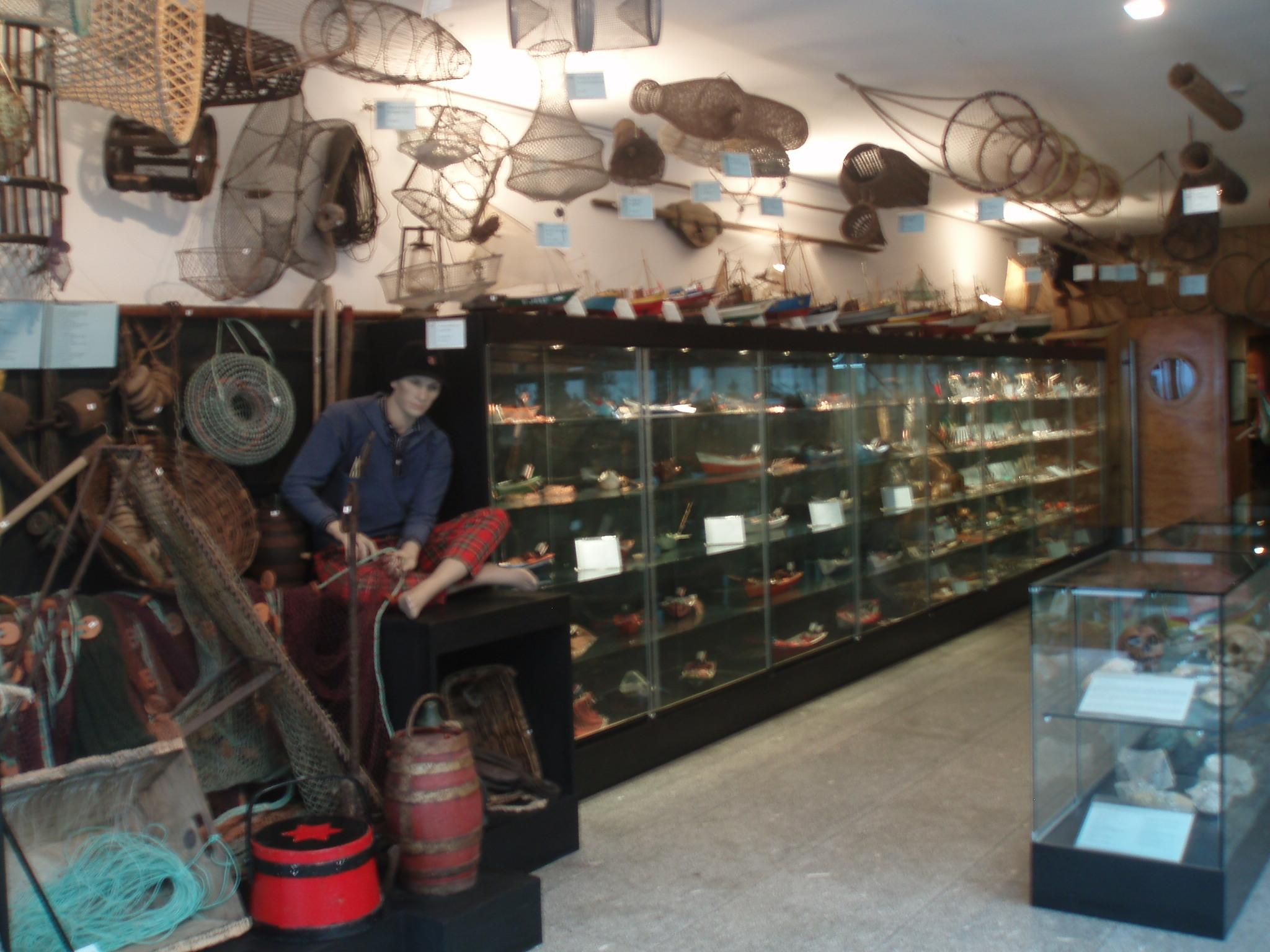 Museum - Estação Litoral da Aguda - Vila Nova de Gaia - Portugal